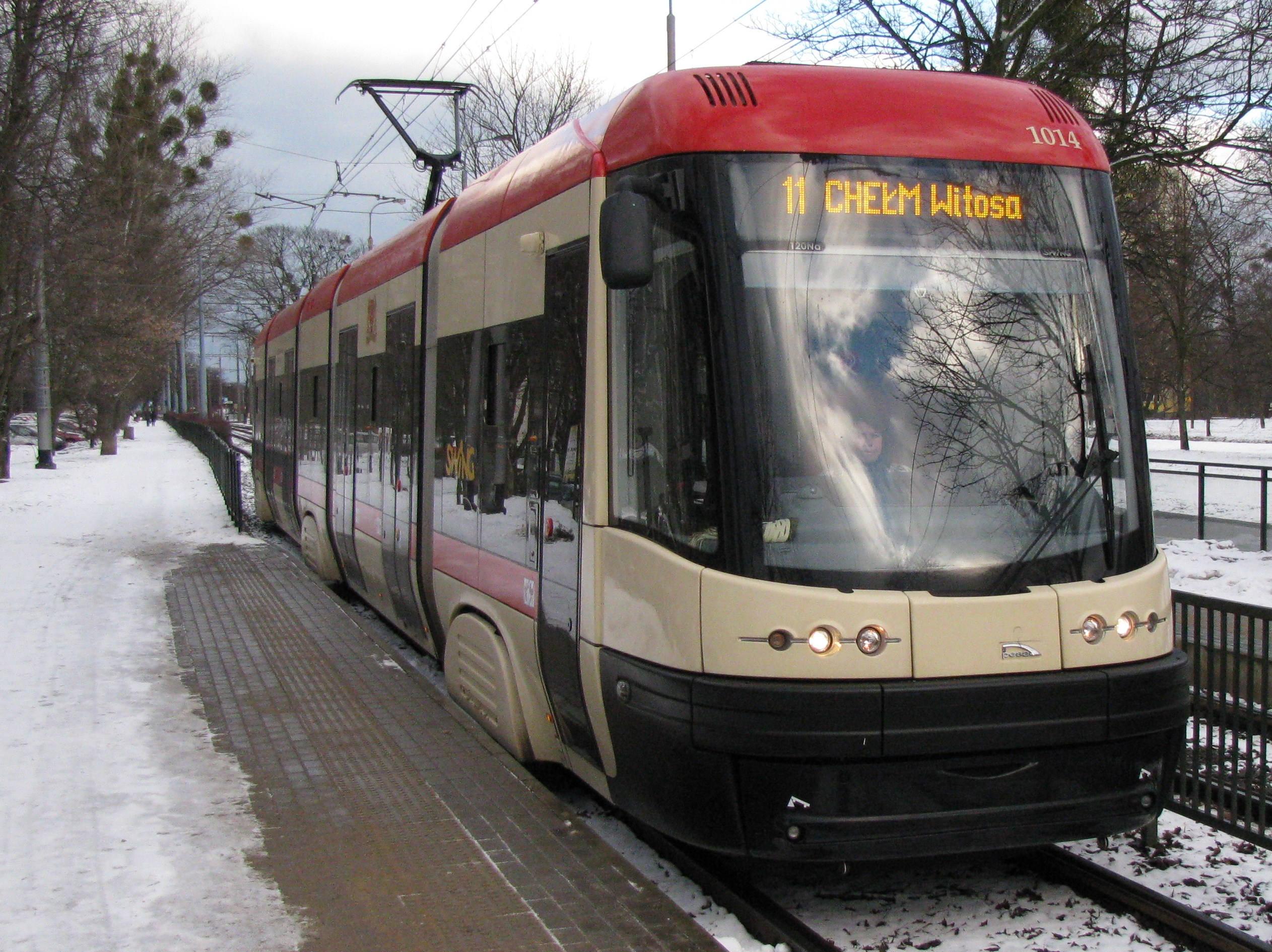 A PESA 120Na tram in Gdańsk (Poland), serial number 1014.